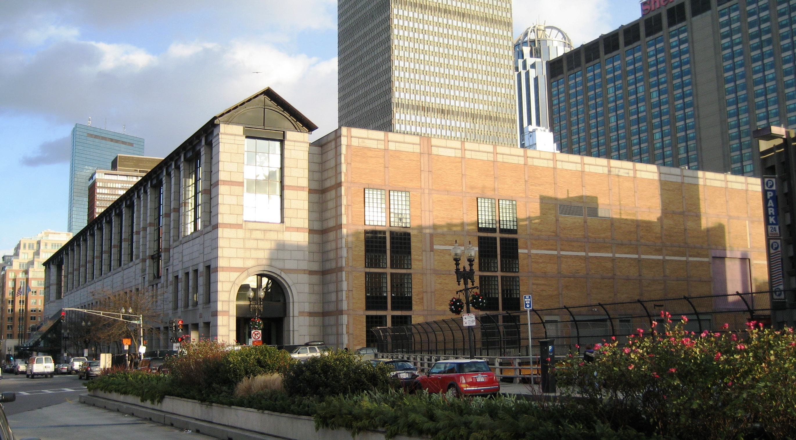 Hynes Convention Center in Boston as seen from the Boylston Street bridge over the Massachusetts Turnpike.